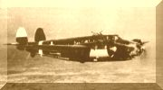 Italian Caproni Ca.135 medium bomber